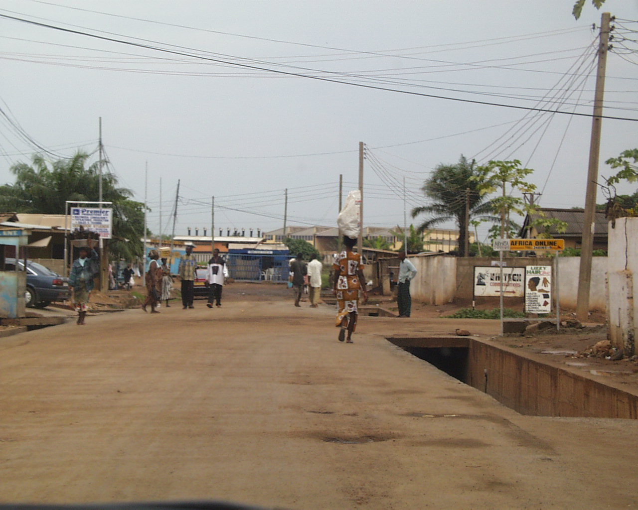 Street in Accra (en), Ghana. The open sewers weren't very pleasant smelling I'll tell you.